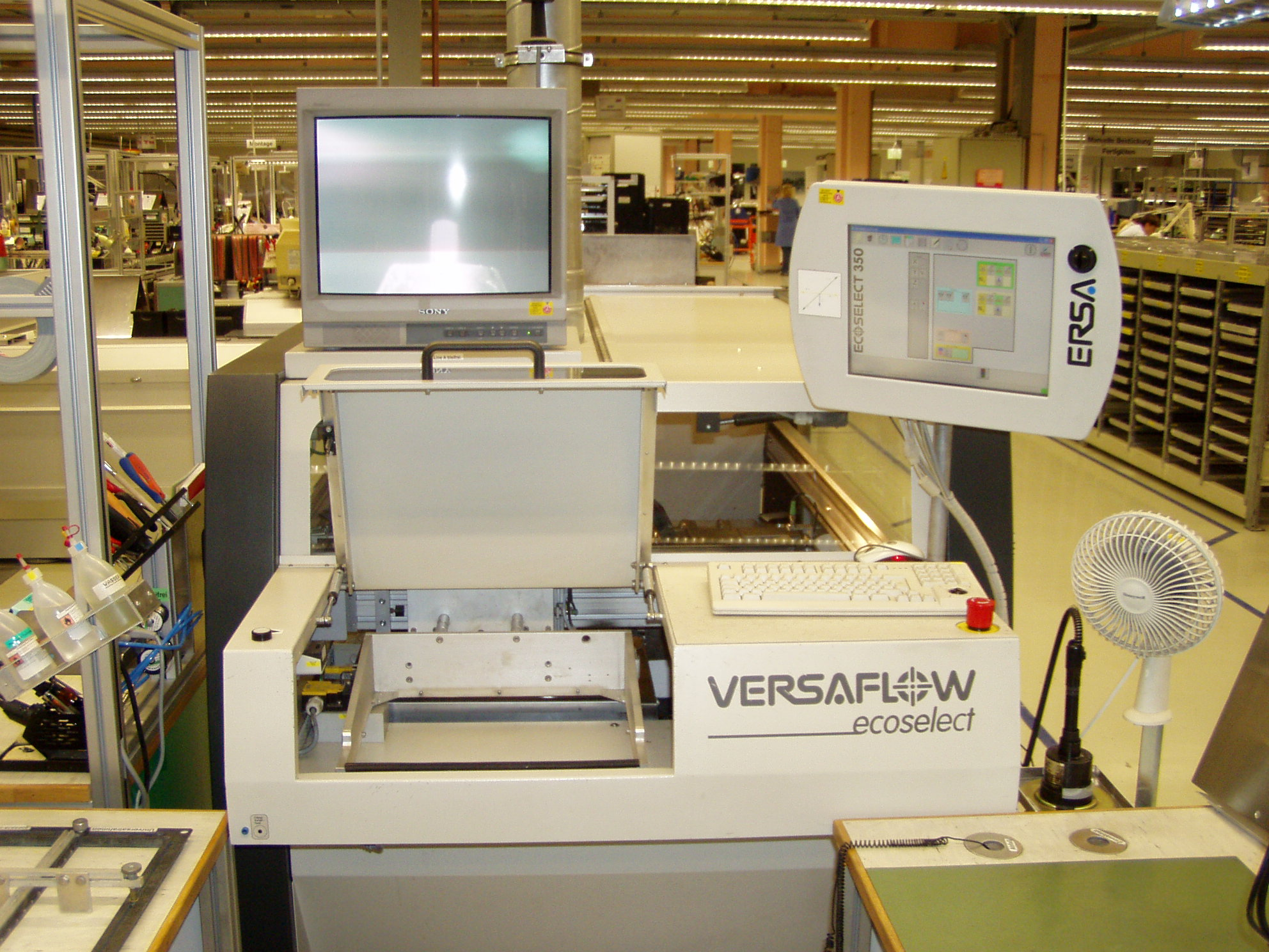 Selective soldering machine from Ersa company